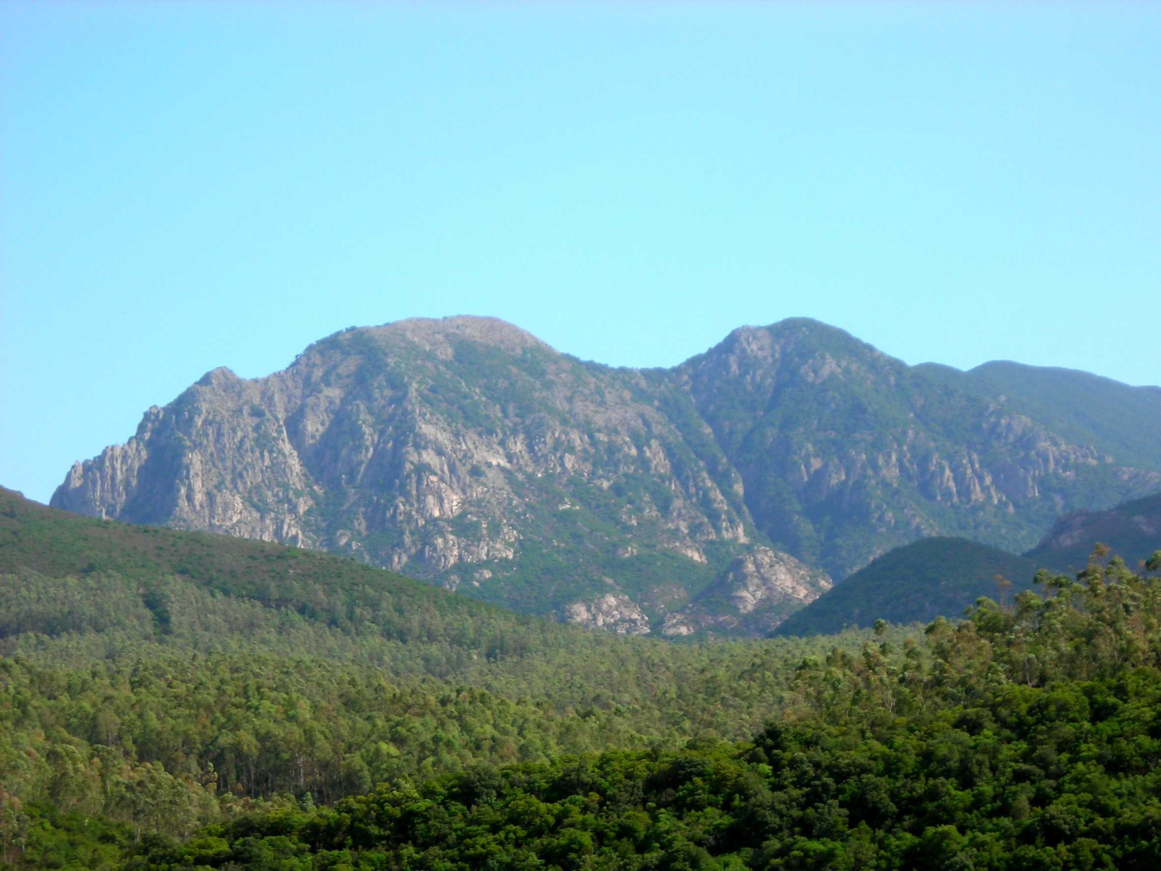 Mount Genna Spina (left) and Punta Rocca Steria (right) (Sardinia, Italy)